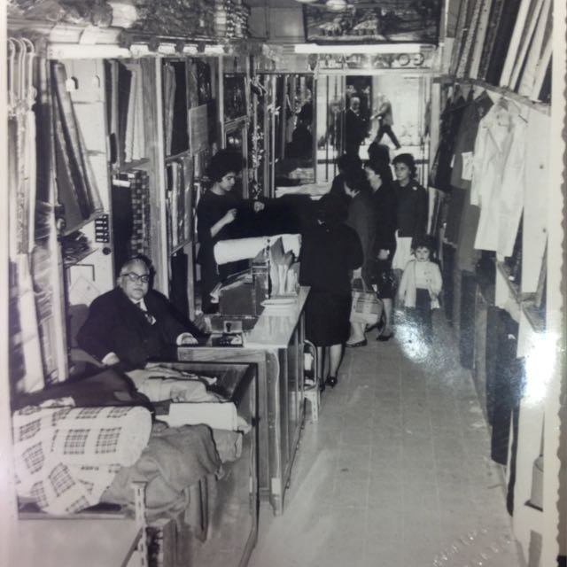 Thanwerdas Vaswani at Gopaldas, Malta (late 1950s-early 1960s). Courtesy of Raj Vaswani, Gopaldas, Malta